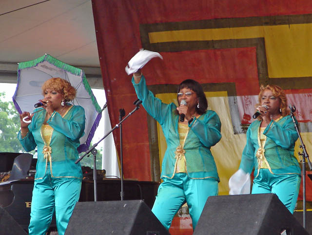 The Dixie Cups at the New Orleans Jazz & Heritage Festival